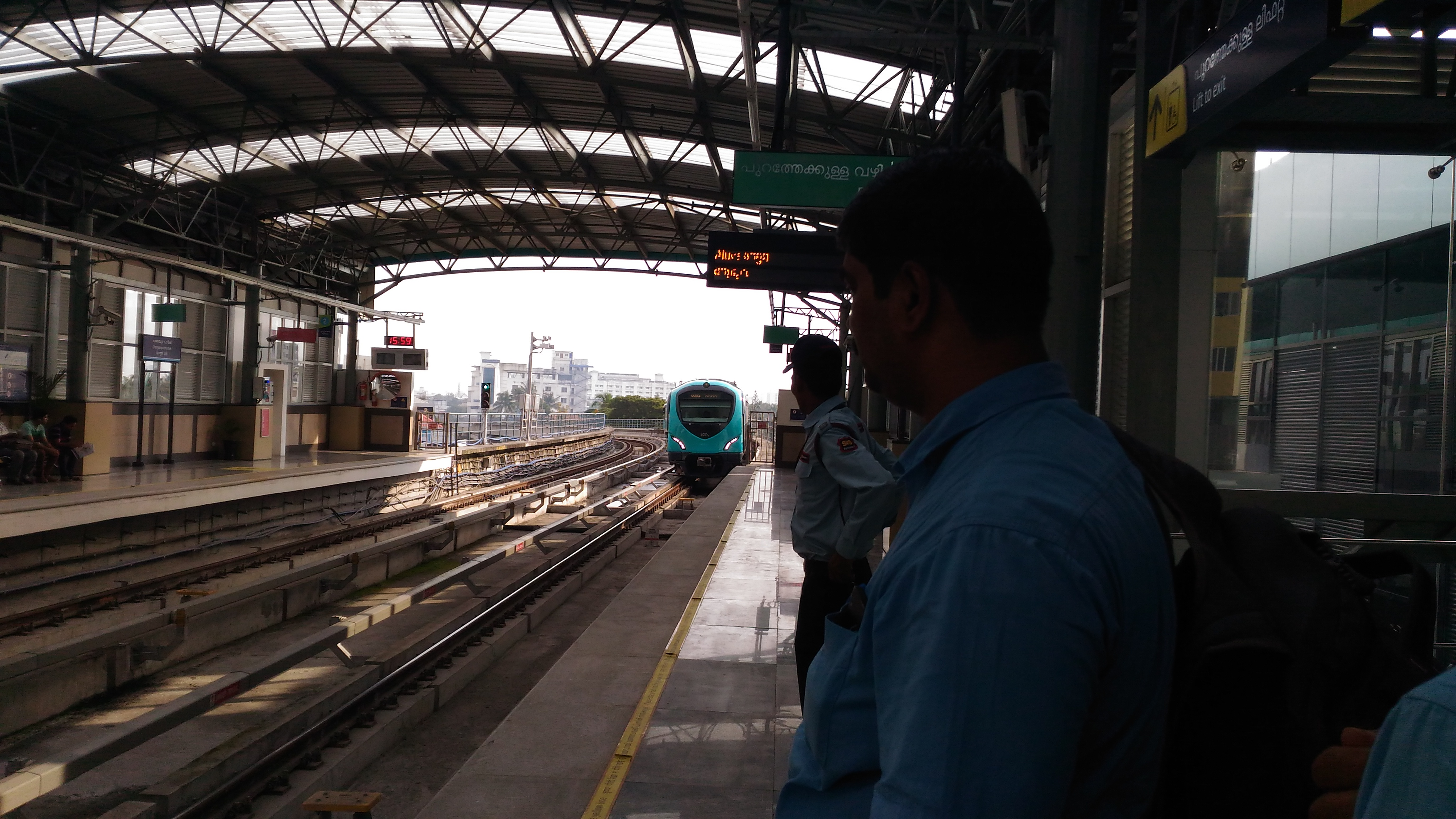 Kochi metro changampuzha park station